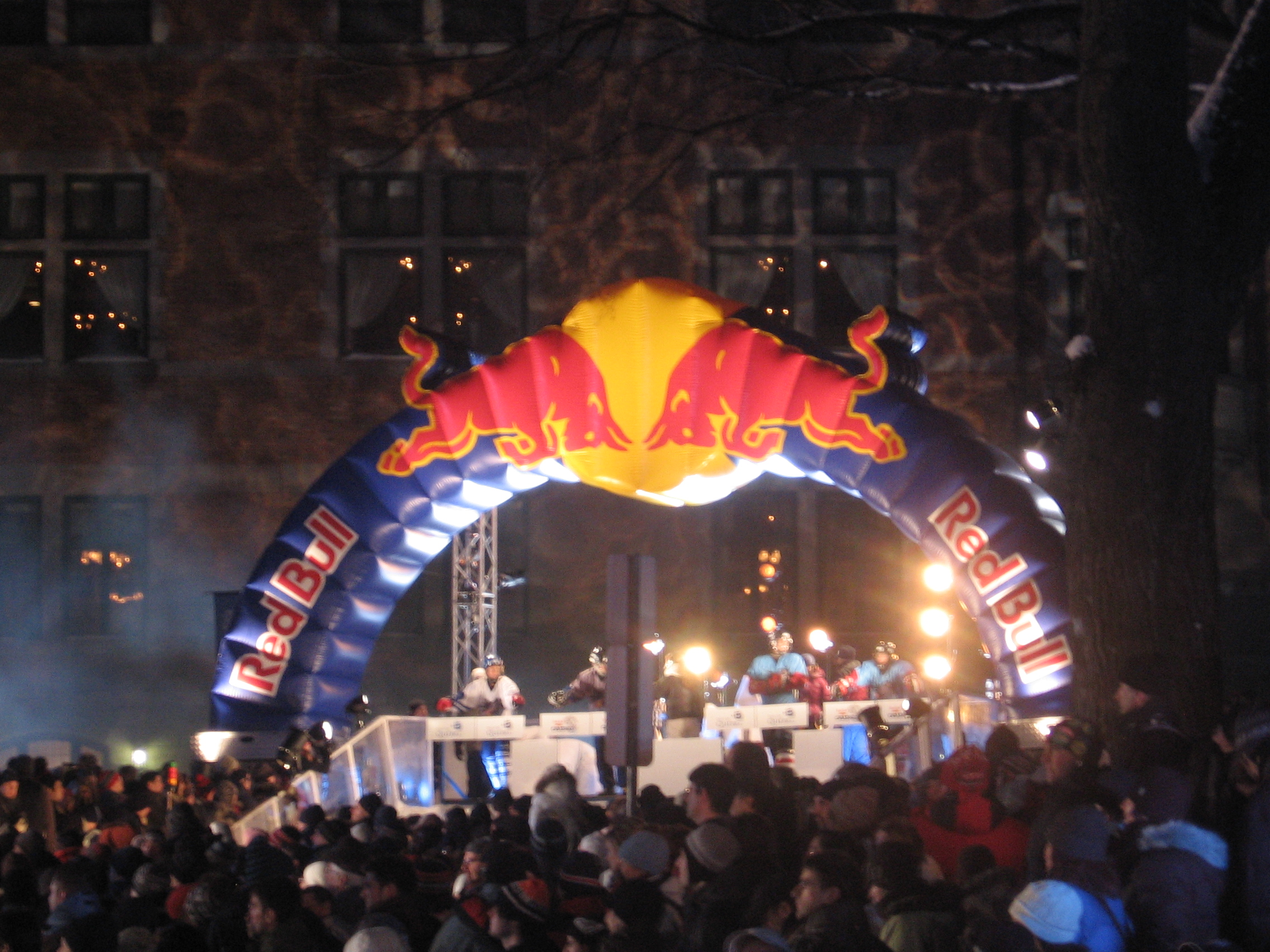 The start line of the Red Bull Crashed Ice '07 that was held in Quebec City in Canada.